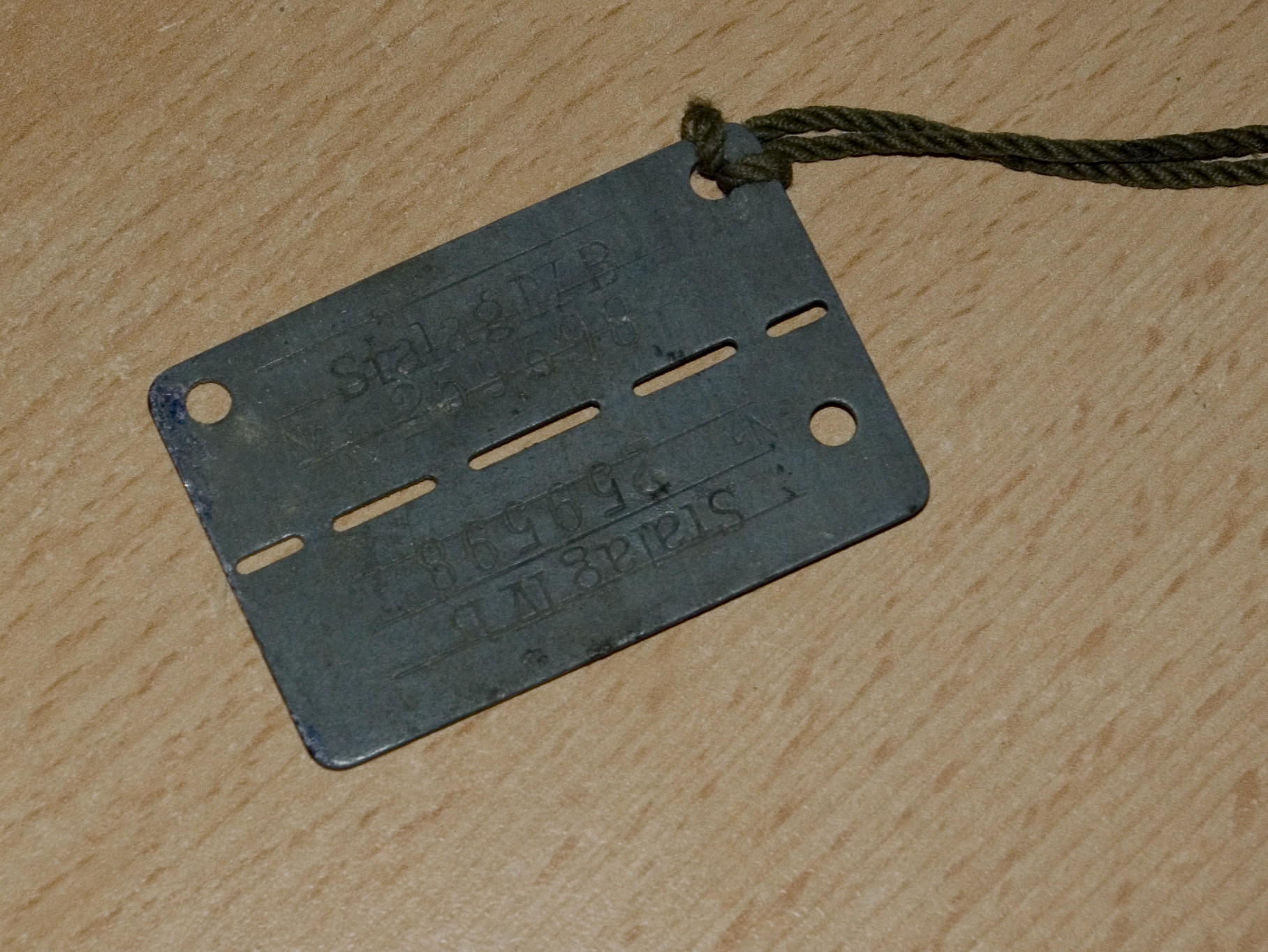 Photo taken by Alan Hood